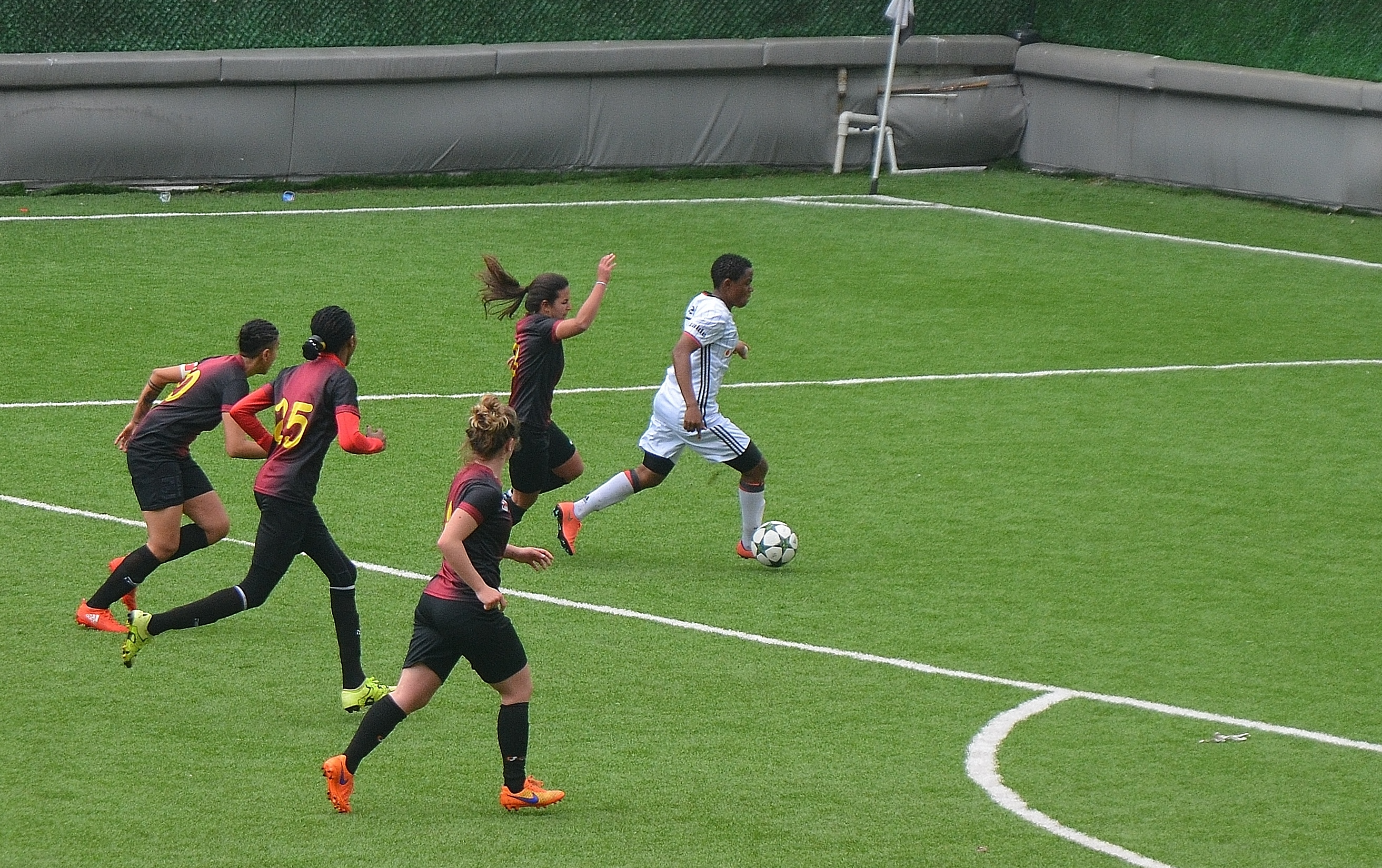 Jacquette Ada playing for Beşiktaş J.K. in the 2016-17 season's play-off match